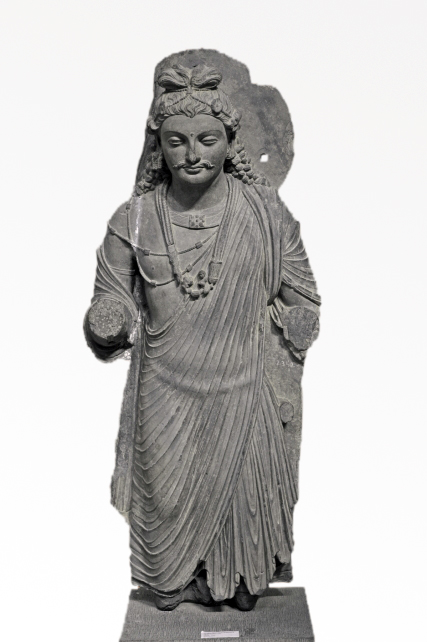 Bodhisattva Maitreya 147 X 61 cms c. 2nd century A.D. Sikrai Acc.No-2342